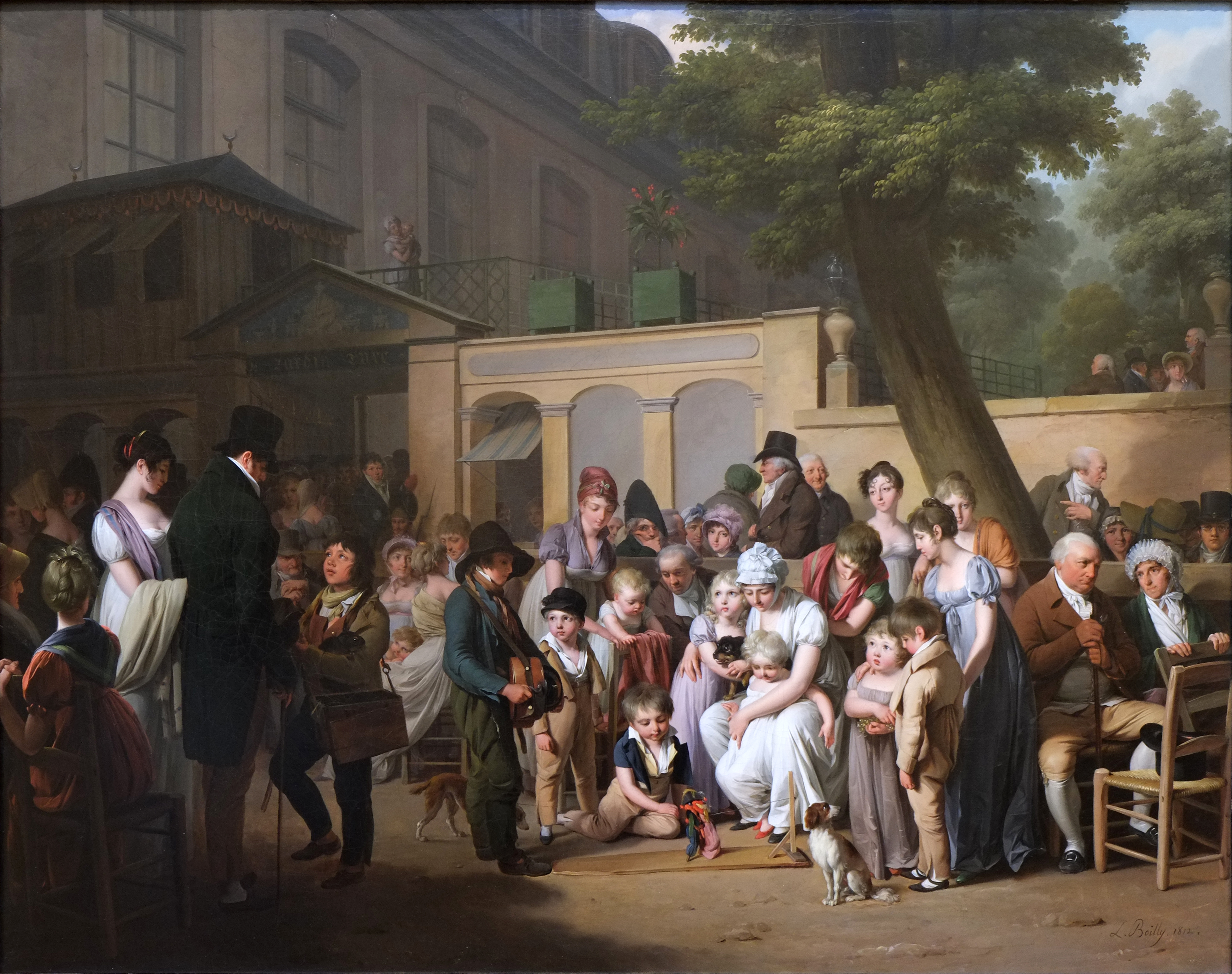 Entrance to the Jardin Turc (French: L'entrée au jardin turc), a painting by Louis-Leopold Boilly. Getty Museum, Los Angeles.